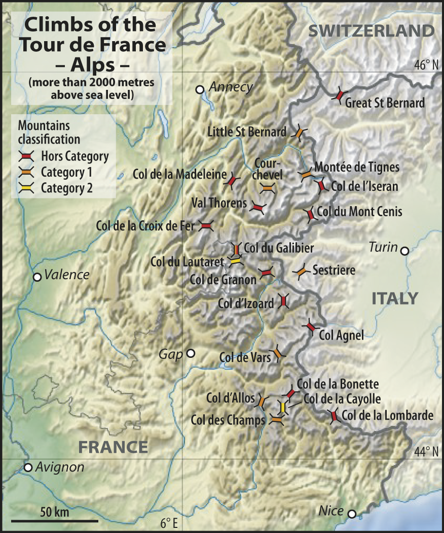 Map of the highest climbs of the Tour de France in the Alps. English version.